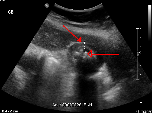 Acute cholecysitis as seen on ultrasound. Closed arrow points to gall bladder wall thickening. Open arrow points to stones in the GB